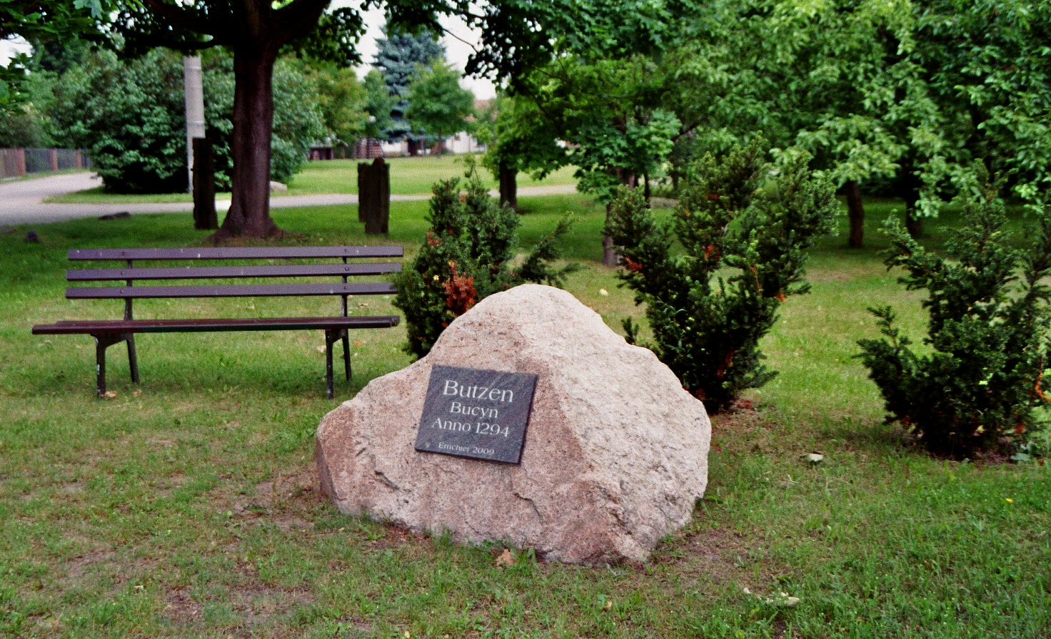 In 2009 errected memorial stone Butzen - Bucyn - Anno 1294 in Butzen, Spreewaldheide, Landkreis Dahme-Spreewald, Brandenburg, Germany.